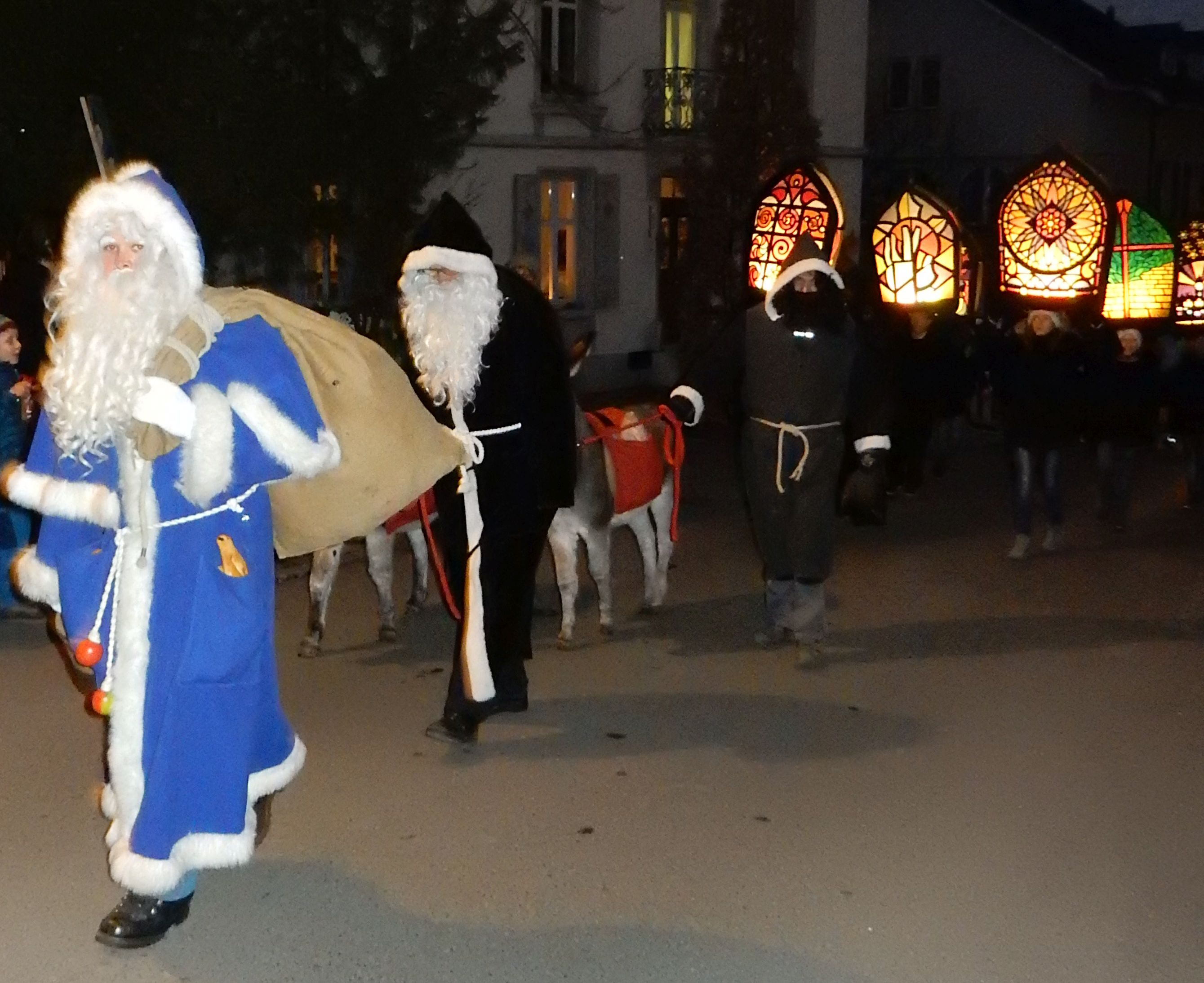 Blauer Santichlaus mit Schmutzli und Esel am Anfang des Zuges.